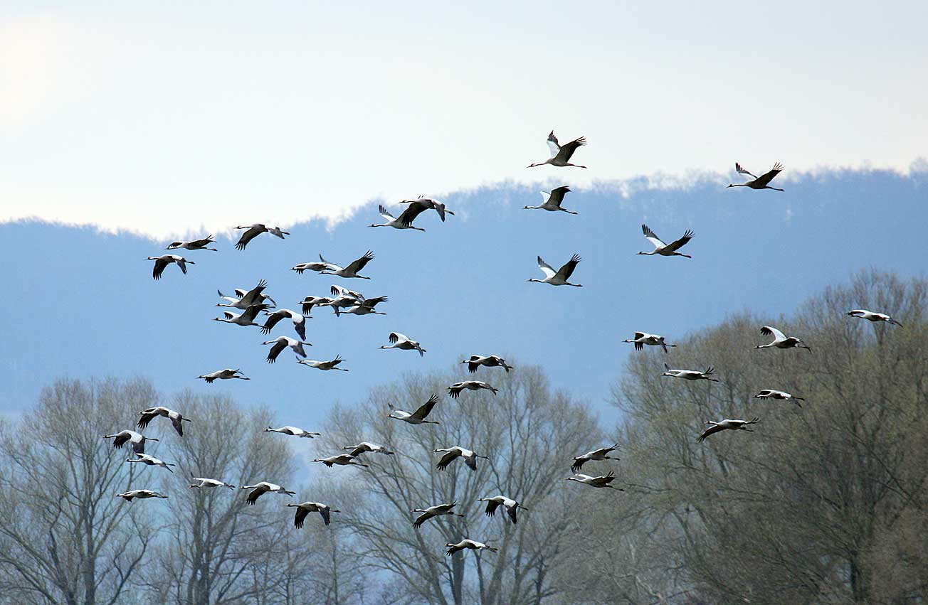 Common Crane